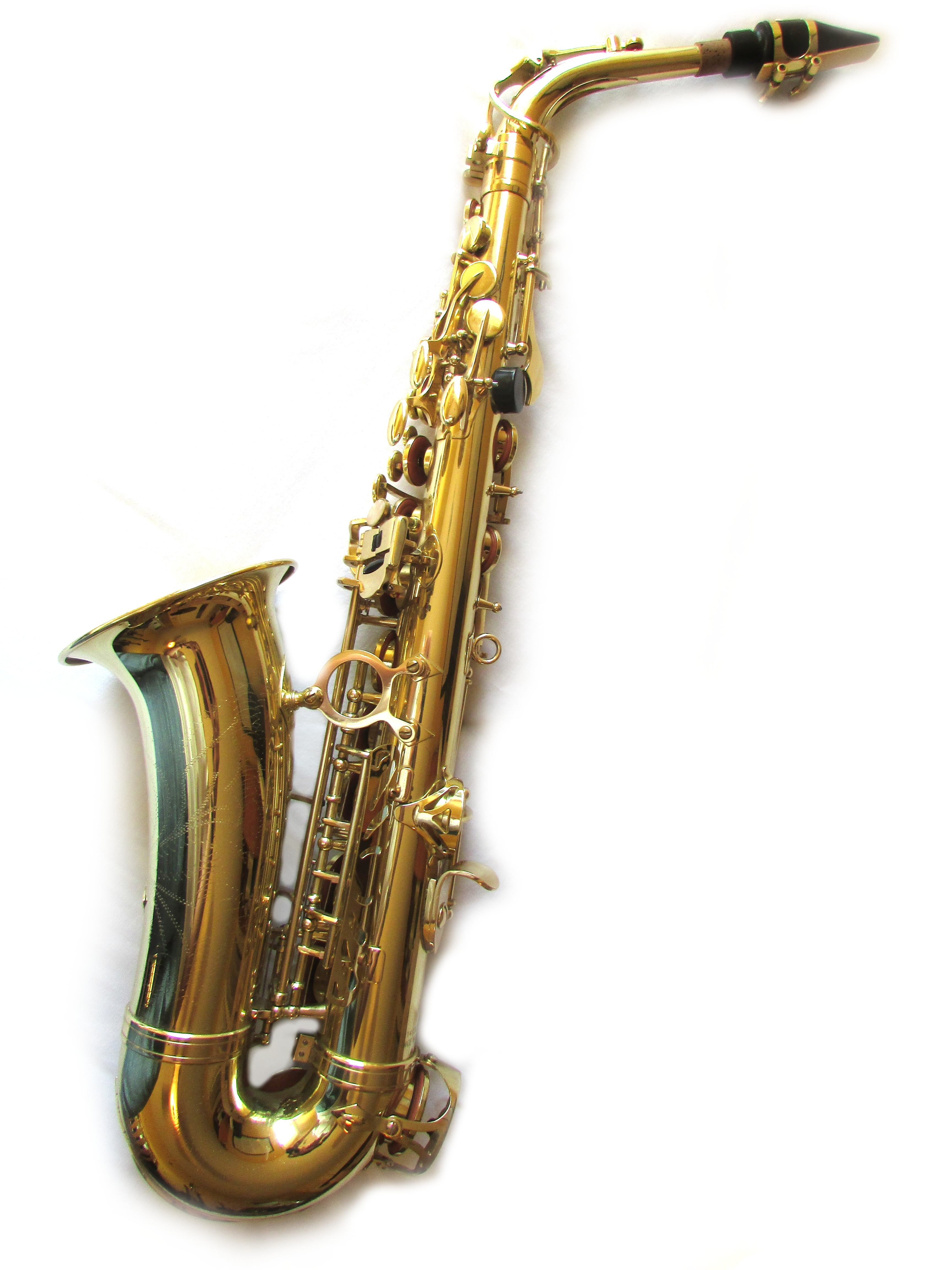 An alto saxophone on a white background.